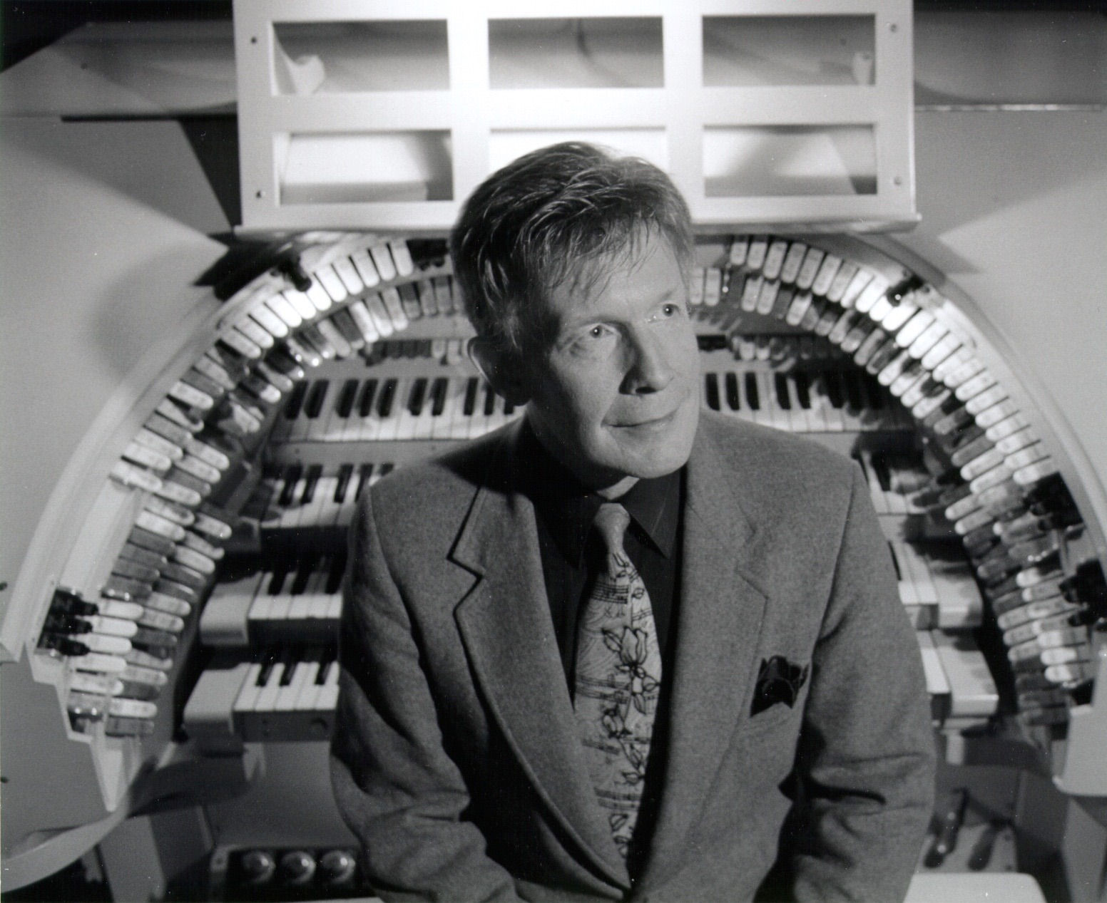 David Hegarty, organist at San Francisco's Castro Theatre since 1978, at the console of the Castro Theatre Wurlitzer Organ in 2002.